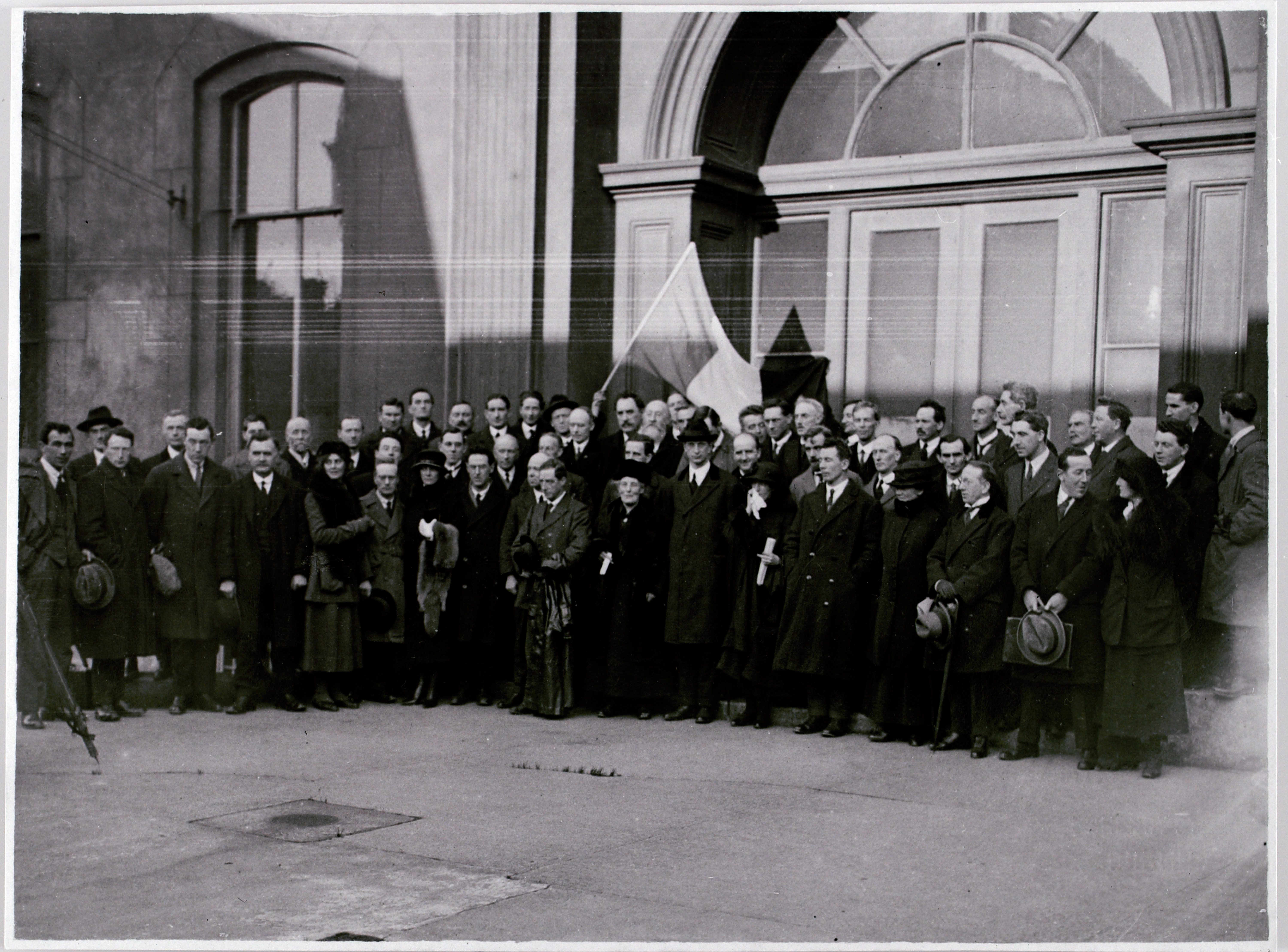 A larger group photo that was taken on the same day as this one. An excellent cohort of you have been trying to identify individual politicians from it, so at decsramble's suggestion, having the larger group for comparison, with more faces straight to W.D. Hogan's camera, may help! Also uploading this photo in two zoomed in halves, so that detail may be more readily available to you. The National Library of Ireland takes no reponsibility for the head melting arguments that may ensue... IDENTIFIED: Eamon de Valera (identified by decsramble) Harry Boland (identified by decsramble) Tom Maguire (identified by decsramble and swordscookie) Seán T. O'Kelly / Ó Ceallaigh (identified by swordscookie, jasemcn and Myrtle26) Professor William Stockley (identified by decsramble) Erskine Childers (identified by jasemcn and Myrtle26) Austin Stack (identified by decsramble) Kathleen Clarke (identified by decsramble) Sean O'Mahony (identified by sensibleken and decsramble) Countess Markievicz (identified by decsramble and jasemcn) Liam Mellows/Mellowes (identified by decsramble) Count George Noble Plunkett (identified by decsramble abd Myrtle26) Margaret Pearse (identified by decsramble) Cathal Brugha (identified by decsramble) Seán S. Ó Ceallaigh / Sceilg (identified by jasemcn and swordscookie) Michael Colivet (identified by jasemcn and swordscookie) Date: Tuesday, 10 January 1922 NLI Ref.: HOG234